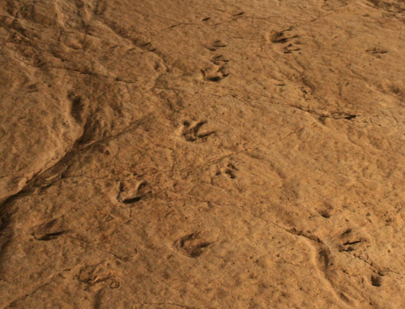 Sataplia reserve, Georgia. Dinosaur prints